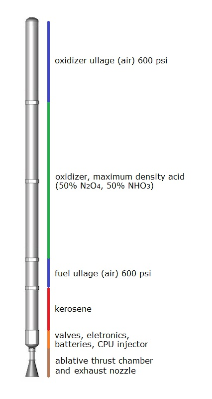 OTRAG's Common Rocket Propulsion Unit shape